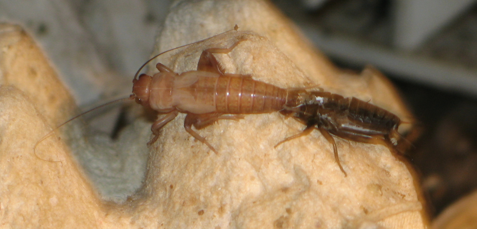 Cricket of species Gryllus bimaculatus, being out of moult. Personnal picture of my own animals.